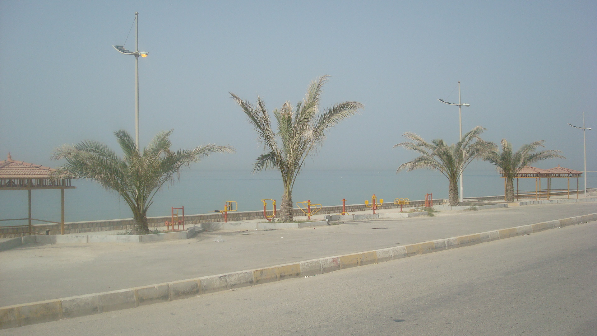 Siraf beach - Persian Gulf